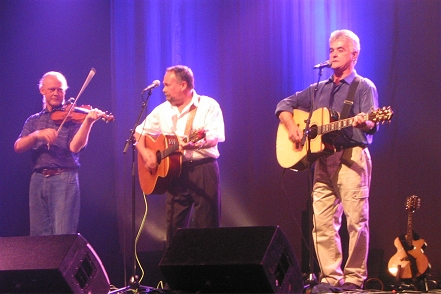 The Hennessys; Iolo Jones, Frank Hennessy and Dave Burns at a concert in Lorient, Brittany